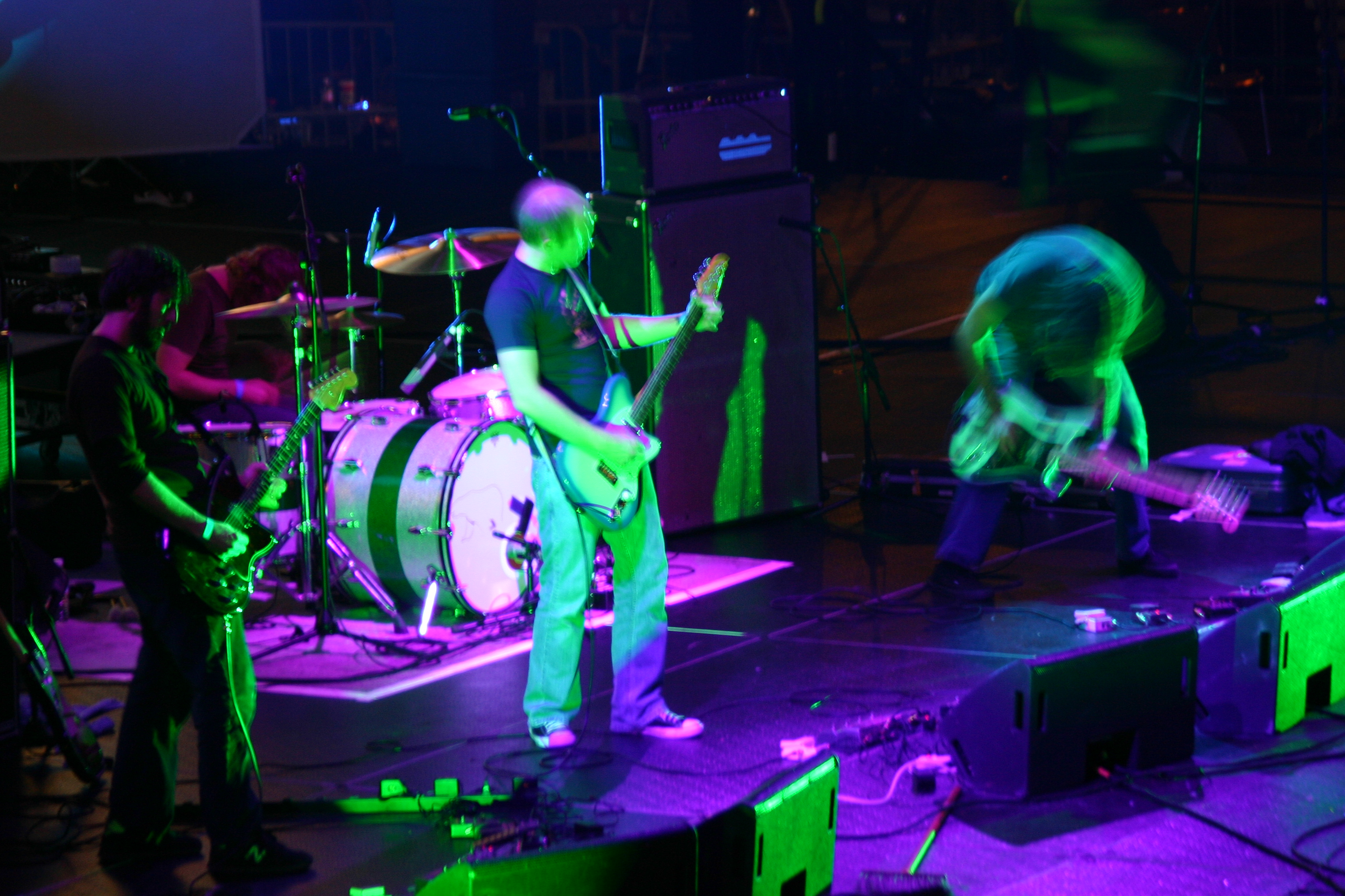 Explosions in the Sky performing on San Francisco, California.